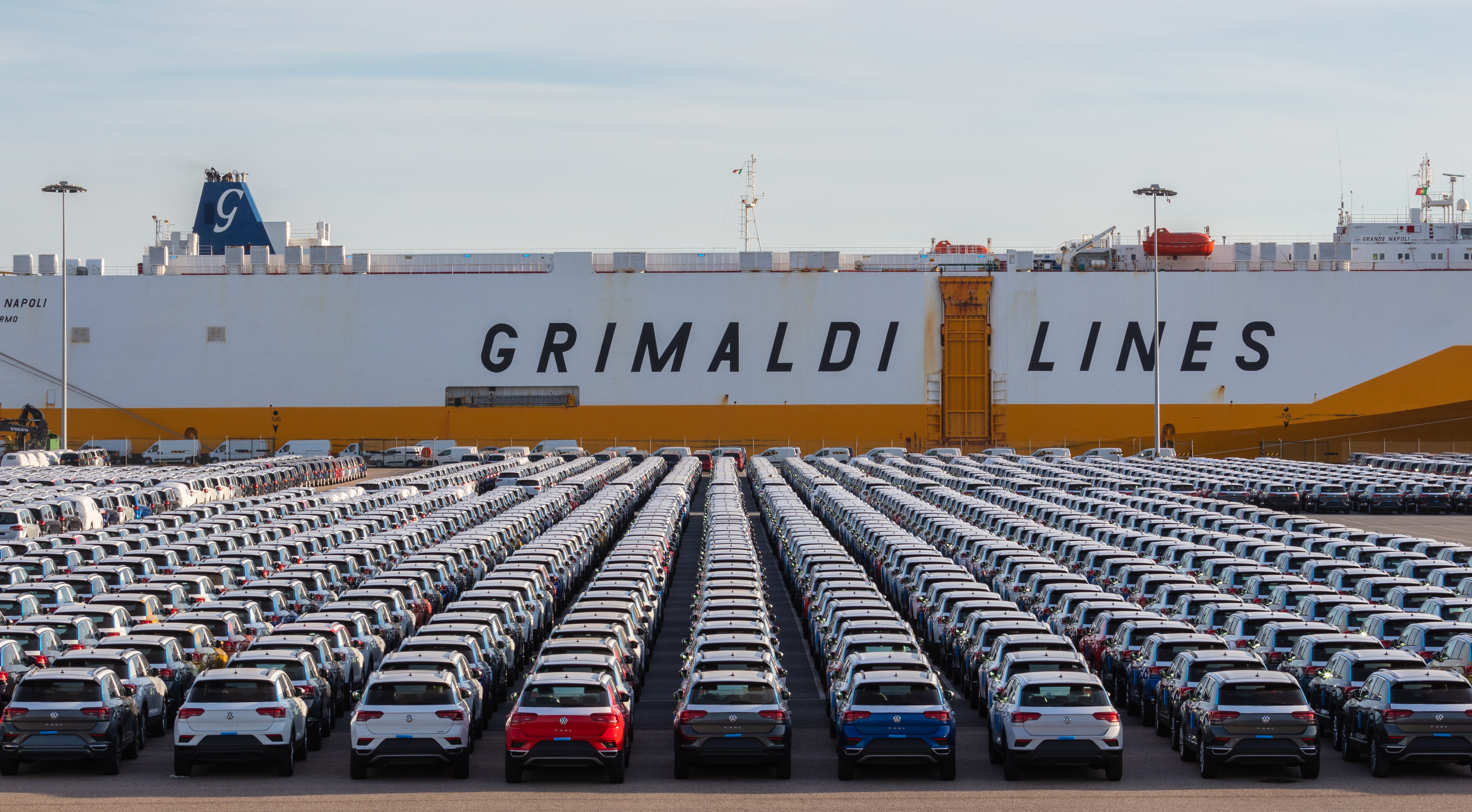 Automobiles in the port of Setúbal, Portugal